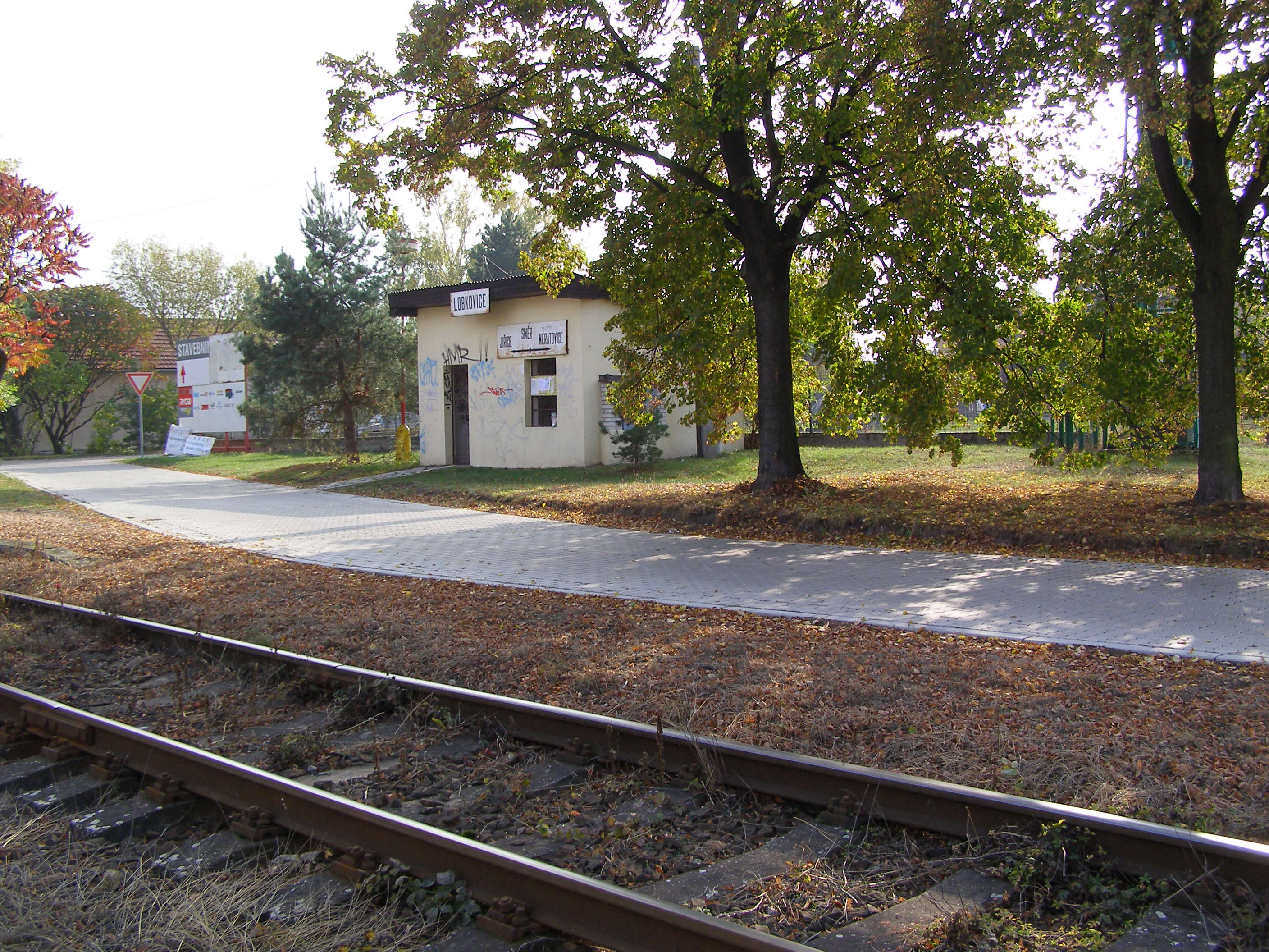 Lobkovice - rail station